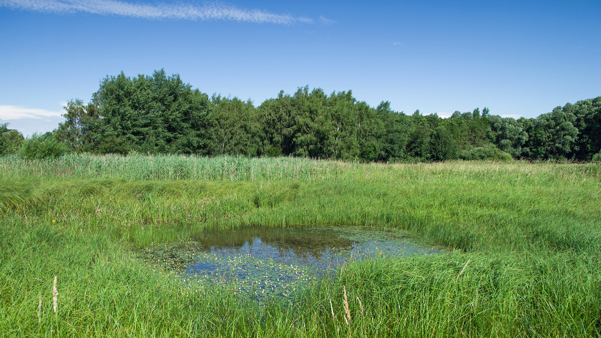 Pool in meadow, nature reserve area "Lüchower Landgrabenniederung", northern Germany.